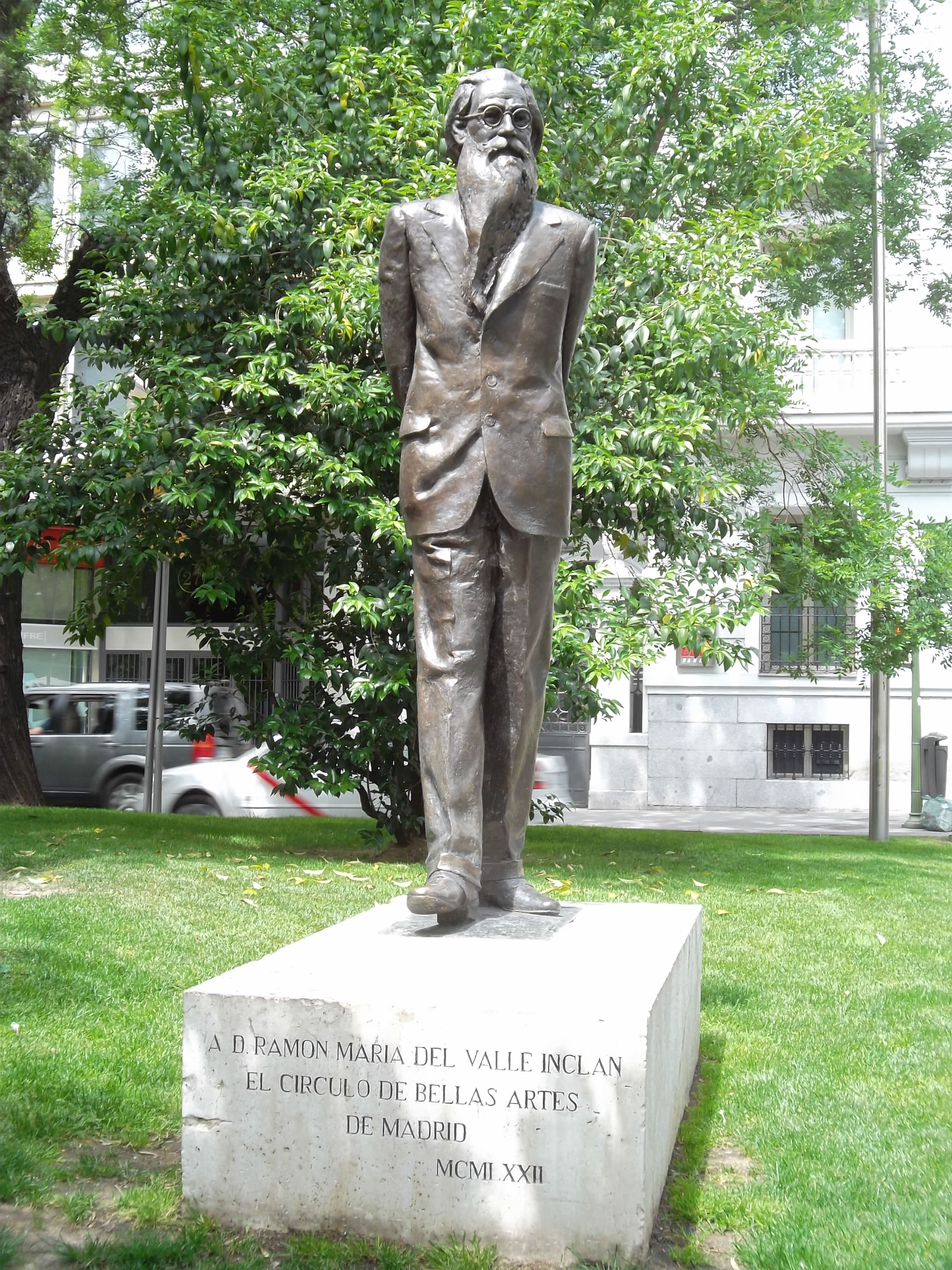 Statue dedicated to Ramón María del Valle-Inclán (1866–1936). Made of bronze by Francisco Toledo Sánchez in 1972 and installed at the Paseo de Recoletos (a boulevard) in Madrid (Spain) in 1972.